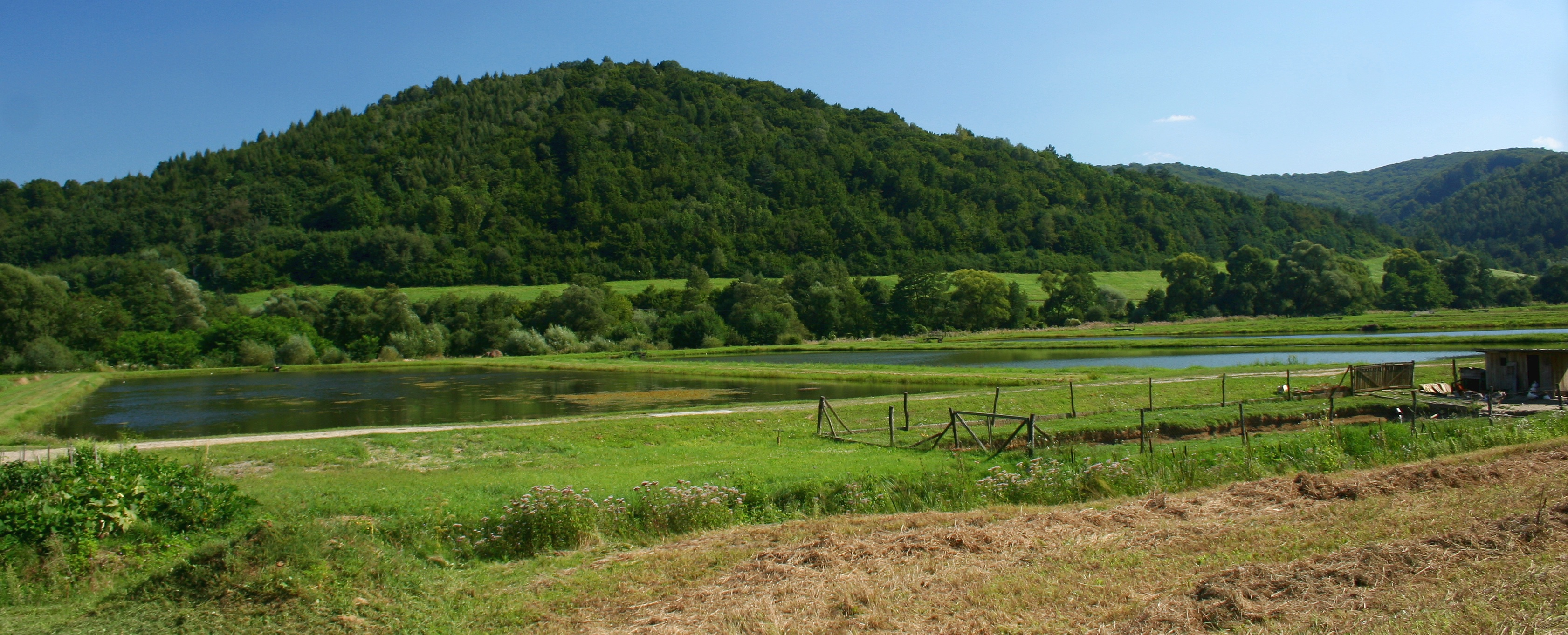 Ponds near Košarovce (Slovakia)